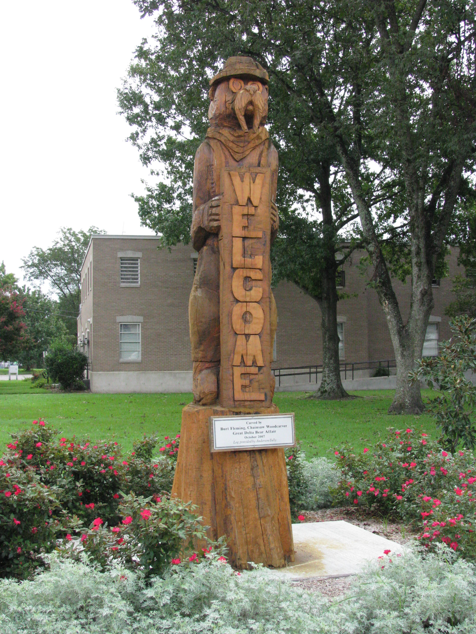 Teddy Roosevelt and bears are common decorations in Sharkey County, Mississippi, where Teddy Roosevelt went on the famous bear hunt, resulting in the creation of teddy bears.